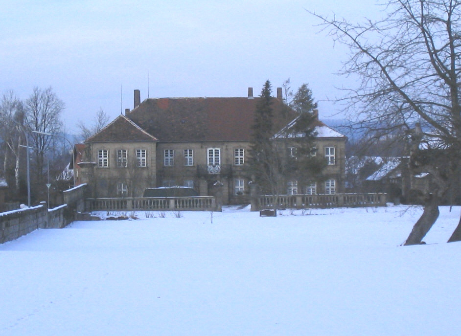 Castle Colmdorf in Bayreuth (Bavaria / Germany)